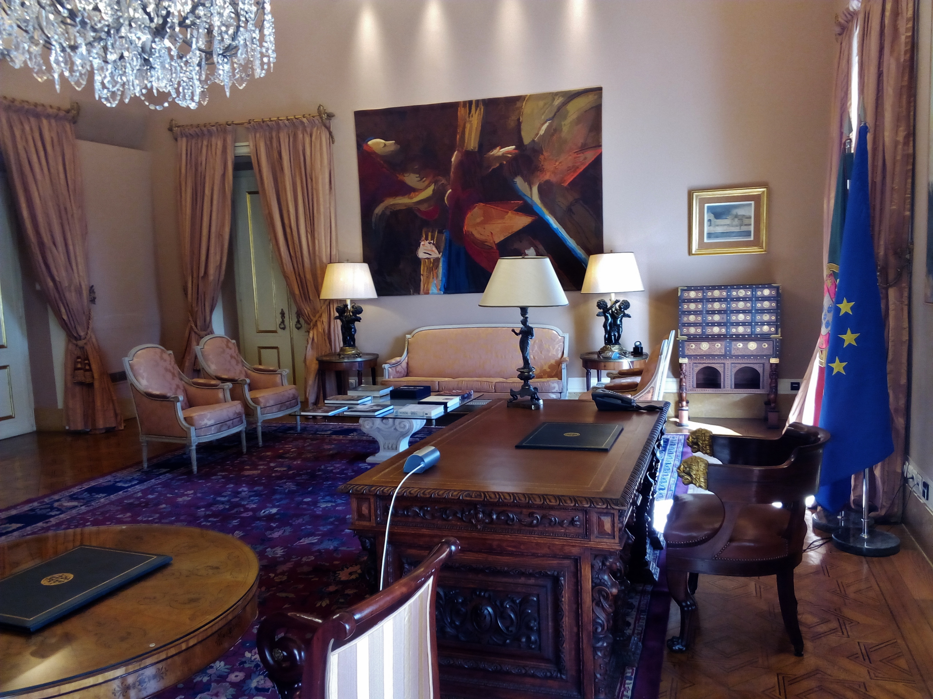 Office of the President of the Portuguese Republic, Belém Palace, Lisbon, Portugal. Photograph taken on 5 October 2016.